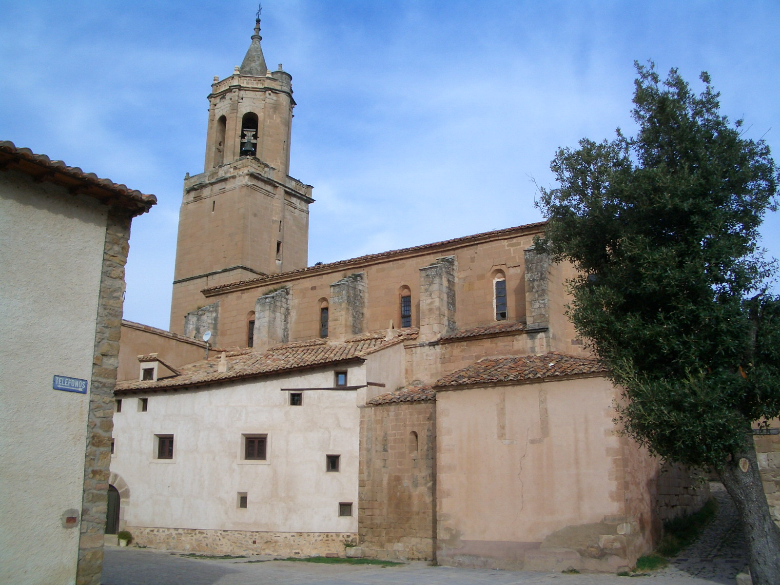 Church of Miravete de la Sierra (Teruel, Spain)